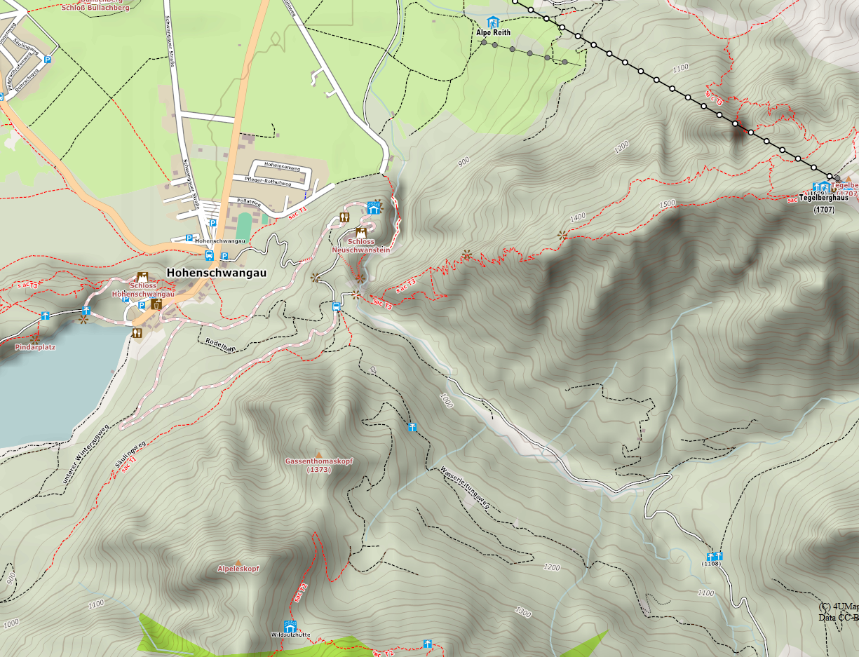 Hiking maps of Neusschwanstein area created with 4UMaps.eu